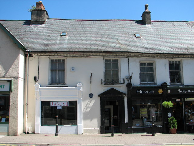 Abergavenny - the Gunter House. The Gunter House is in Cross Street. The explanatory plaque is on the wall to the left of the doorway. See 498719